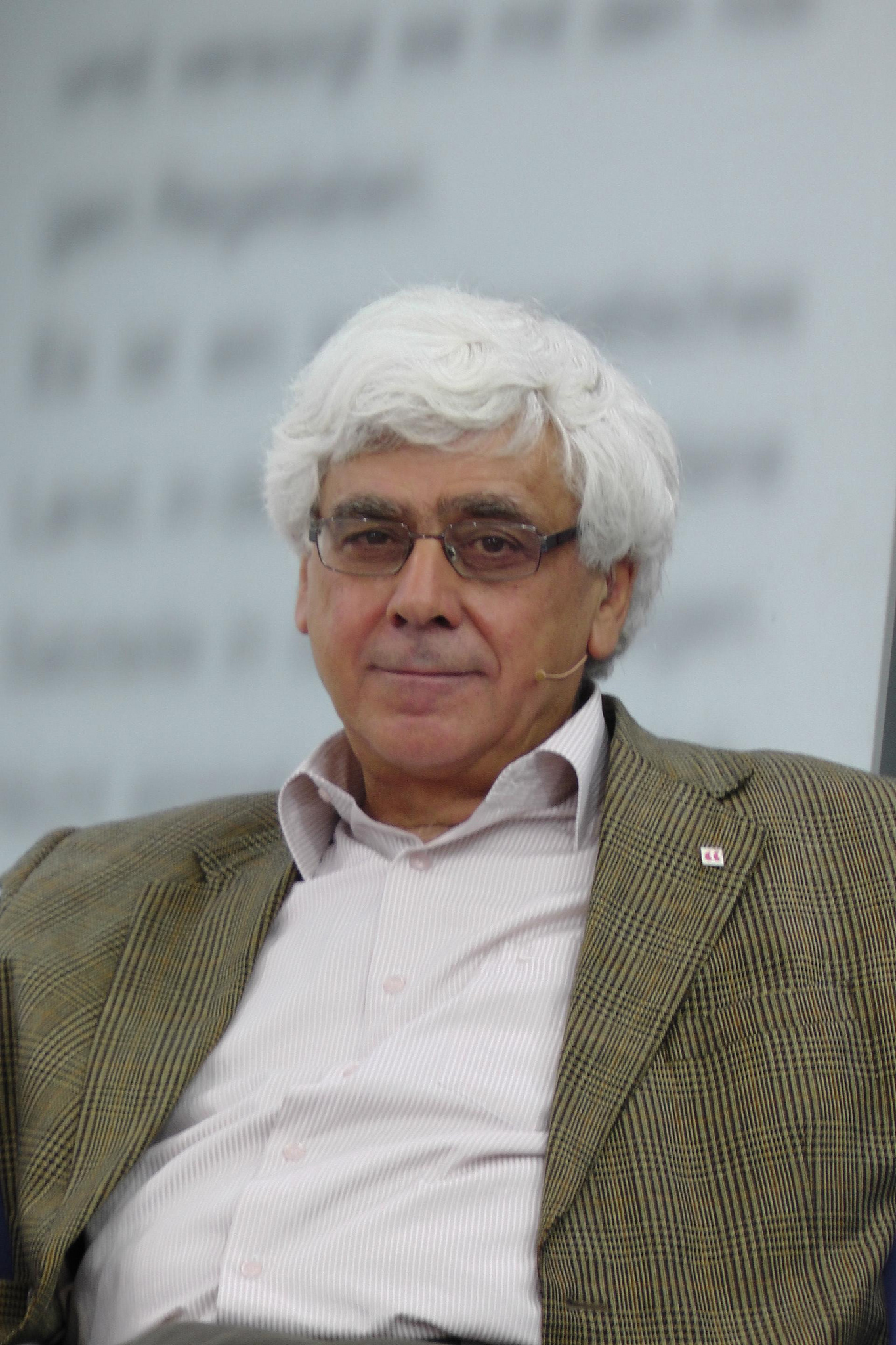 Professor Sari Nusseibeh at the 2012 Leipzig Book Fair (Das Blue Sofa event)